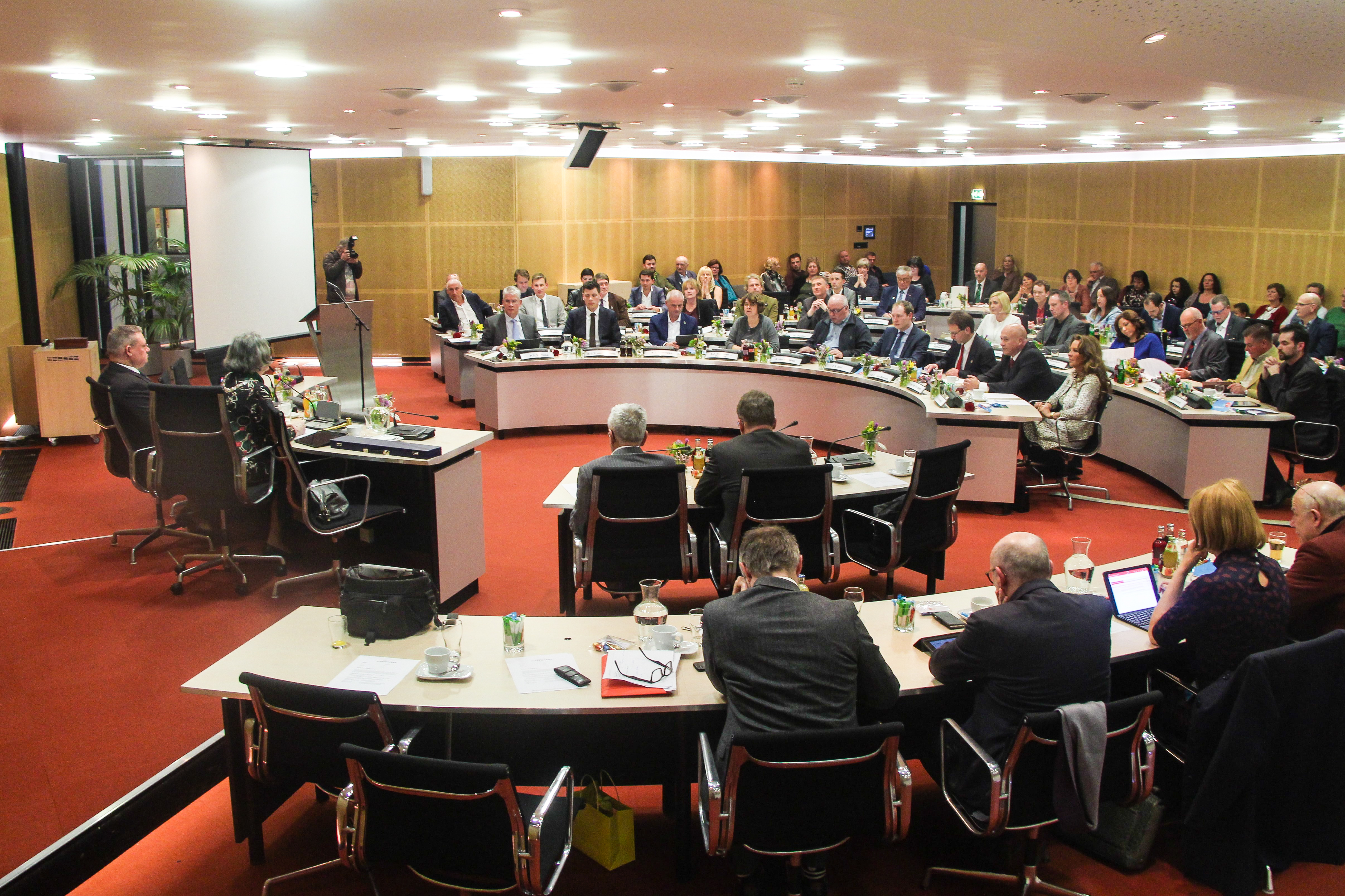 New Council members at the new City Council in Nissewaard